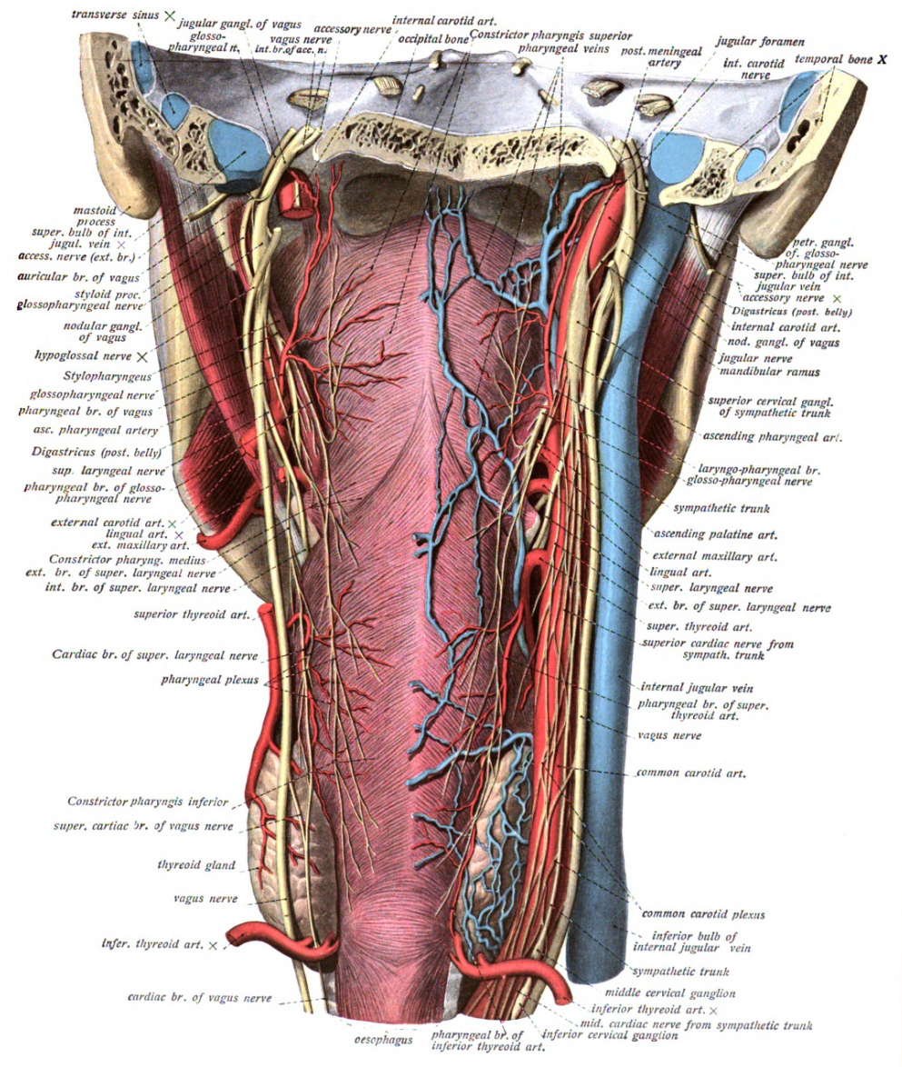 An anatomical illustration from Sobotta's Human Anatomy 1908